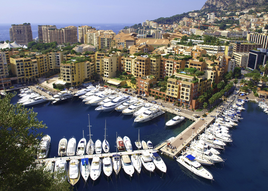 Monaco. Fontvieille and its new harbor with yachts